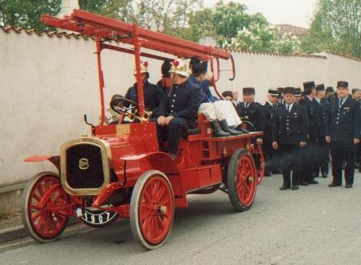 Old fire engine of Nieul-sur-Mer (Charente-Maritime, France); centenary of the Sainte-Soulle Fire Brigade (Charente-Maritime, France)